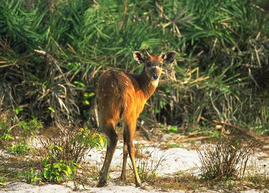 Sitatunga tragelaphus caugh in dune area gabon africa